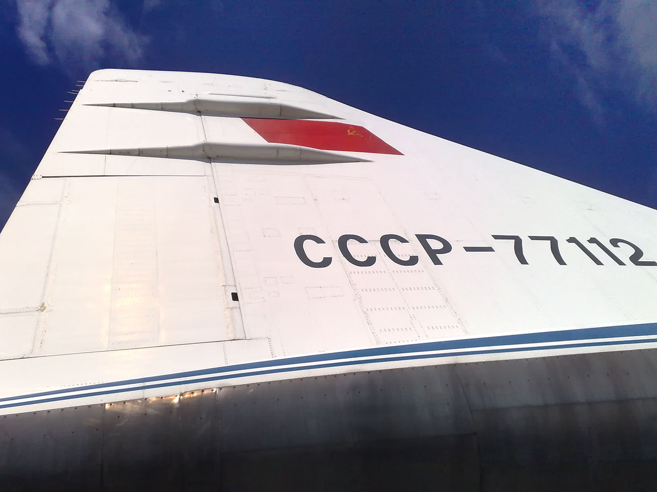 Tupolev Tu-144 Empennage at Auto- und Technikmuseum Sinsheim